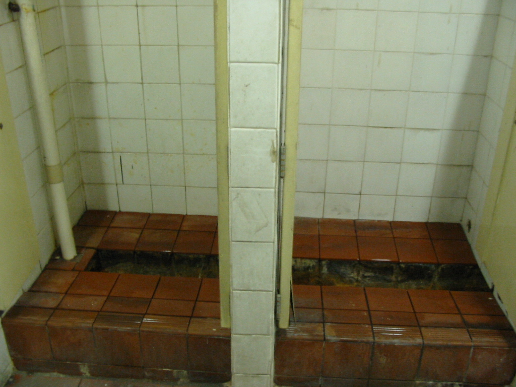 Two cubicles of trough closet in Tai Wo Hau Factory Building, Hong Kong.